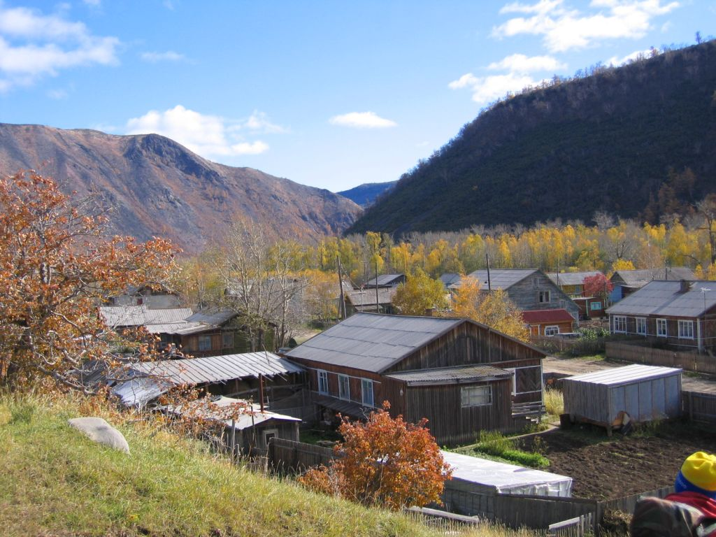 View on Anavgay (Kamchatka Krai, Russia)